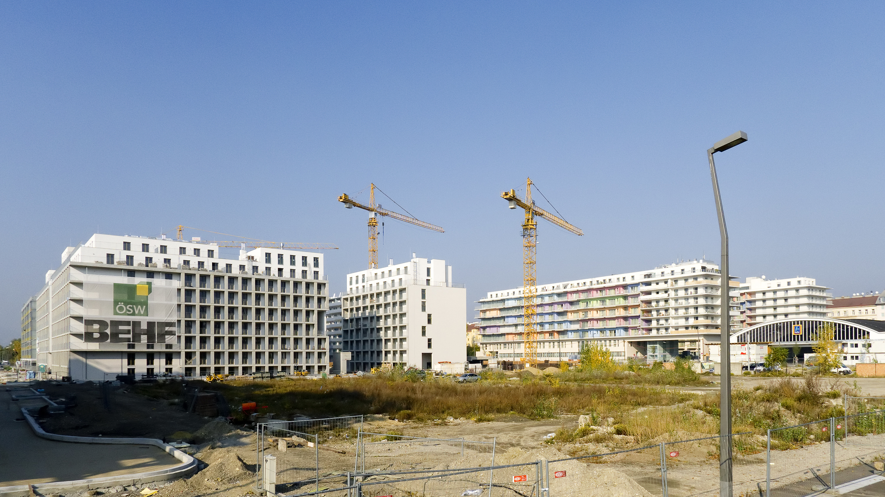 Residential area Nordbahnhofgelände in Vienna 2